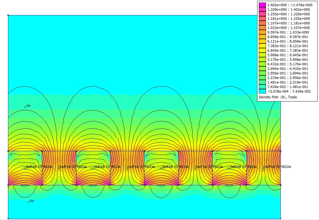 Field lines around a halbach array